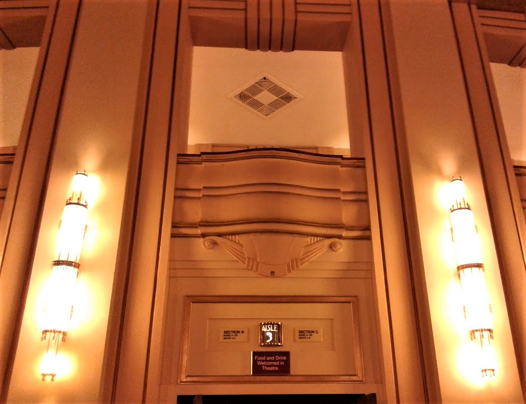 One of the balcony sections in the Adler Theatre lobby in Davenport, Iowa.